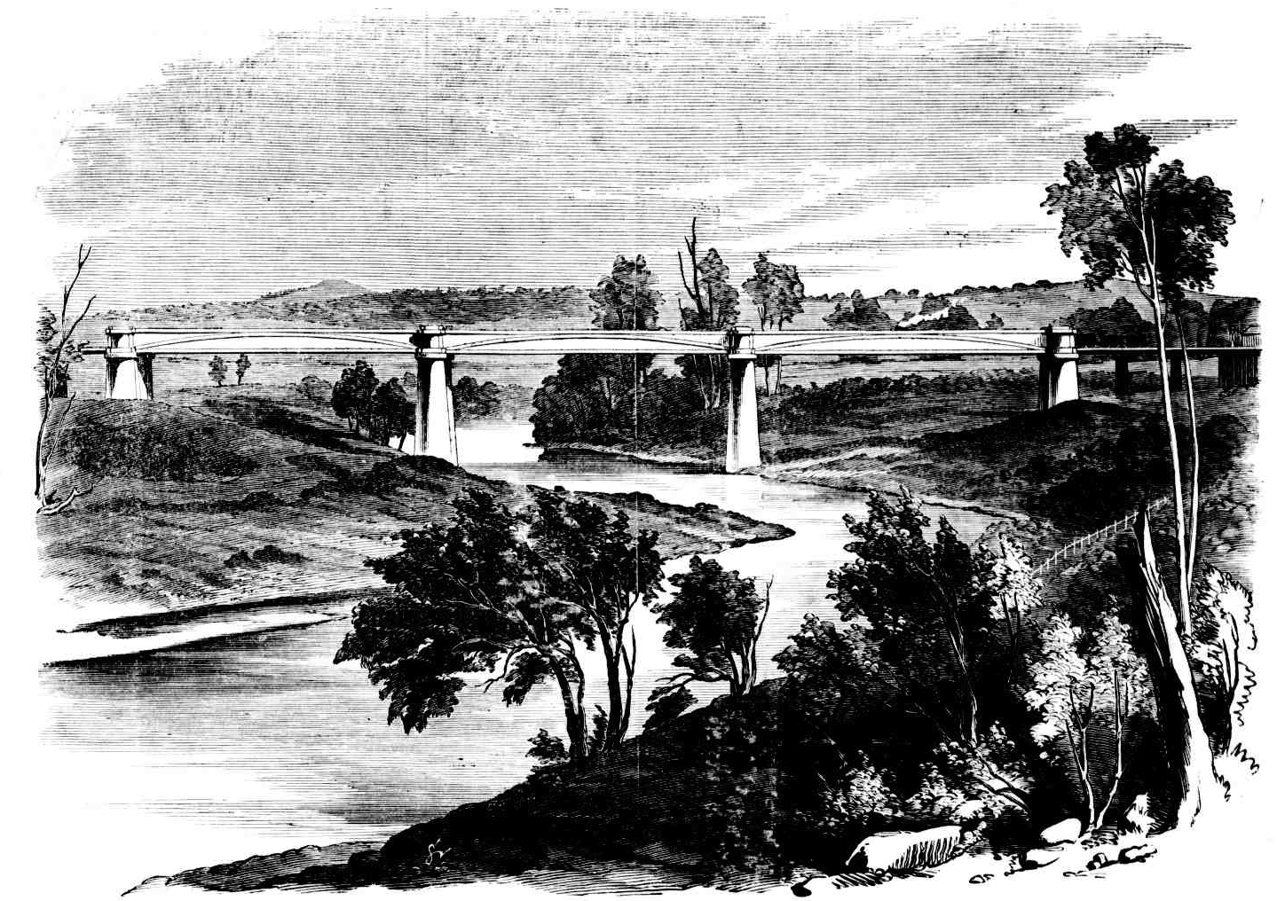 Iron viaduct (railway bridge) over the Upper Nepean River, at Menangle New South Wales, newly opened in 1864.